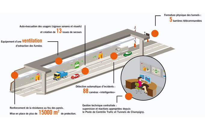 Coupe du tunnel Champigny